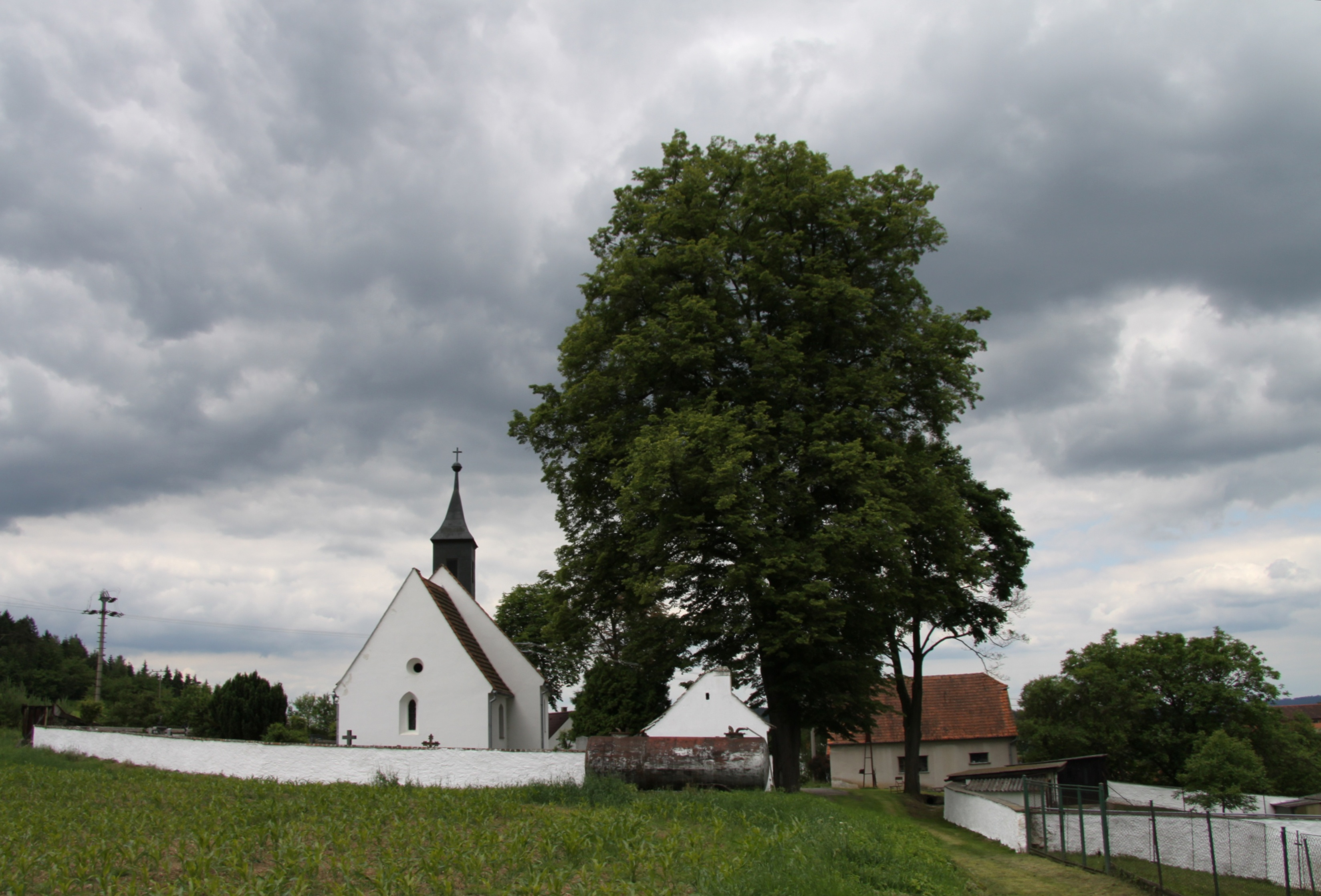 Church of Sant Jacob and Filip in Hejná village, Klatovy District, Czech Republic This photograph was taken within the scope of the 'Czech Municipalities Photographs' grant.